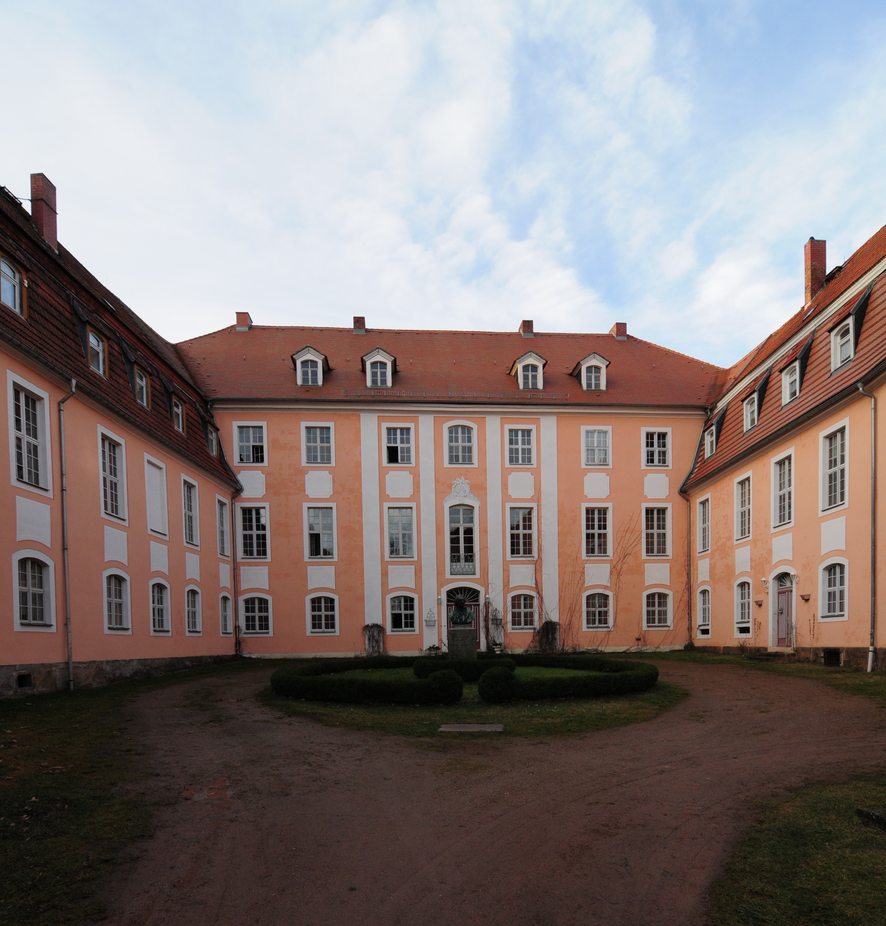 Reichstädt Castle, city Dippoldiswalde - urban district Reichstädt (district Sächsische Schweiz-Osterzgebirge, Free State of Saxony, Germany)